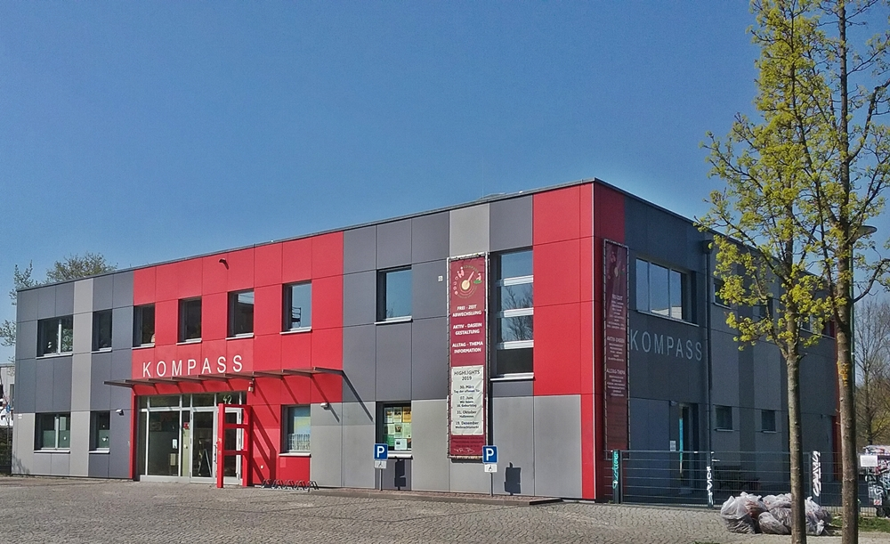 District Center Compass in Berlin-Hellersdorf